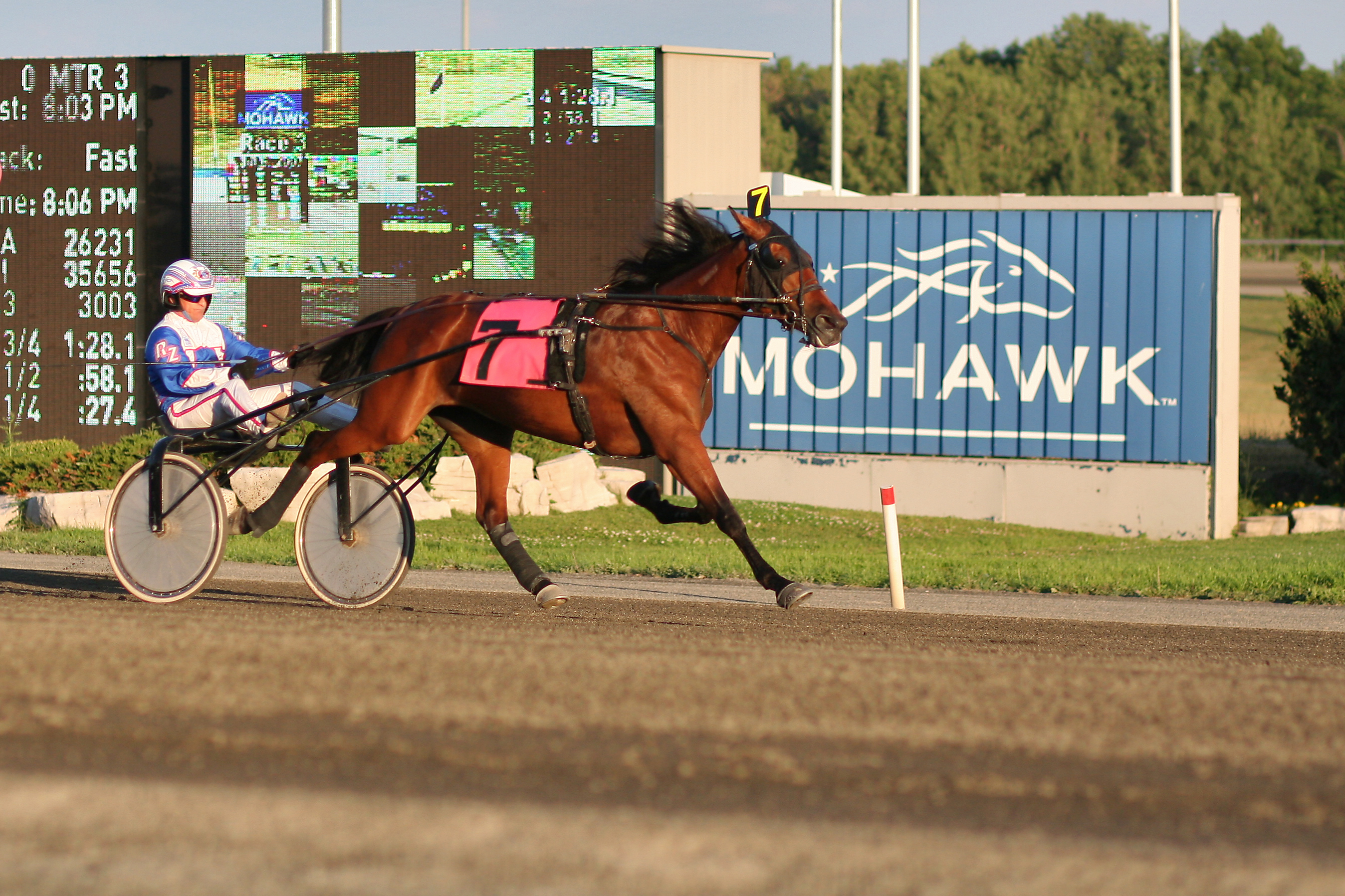 Mohawk raceway